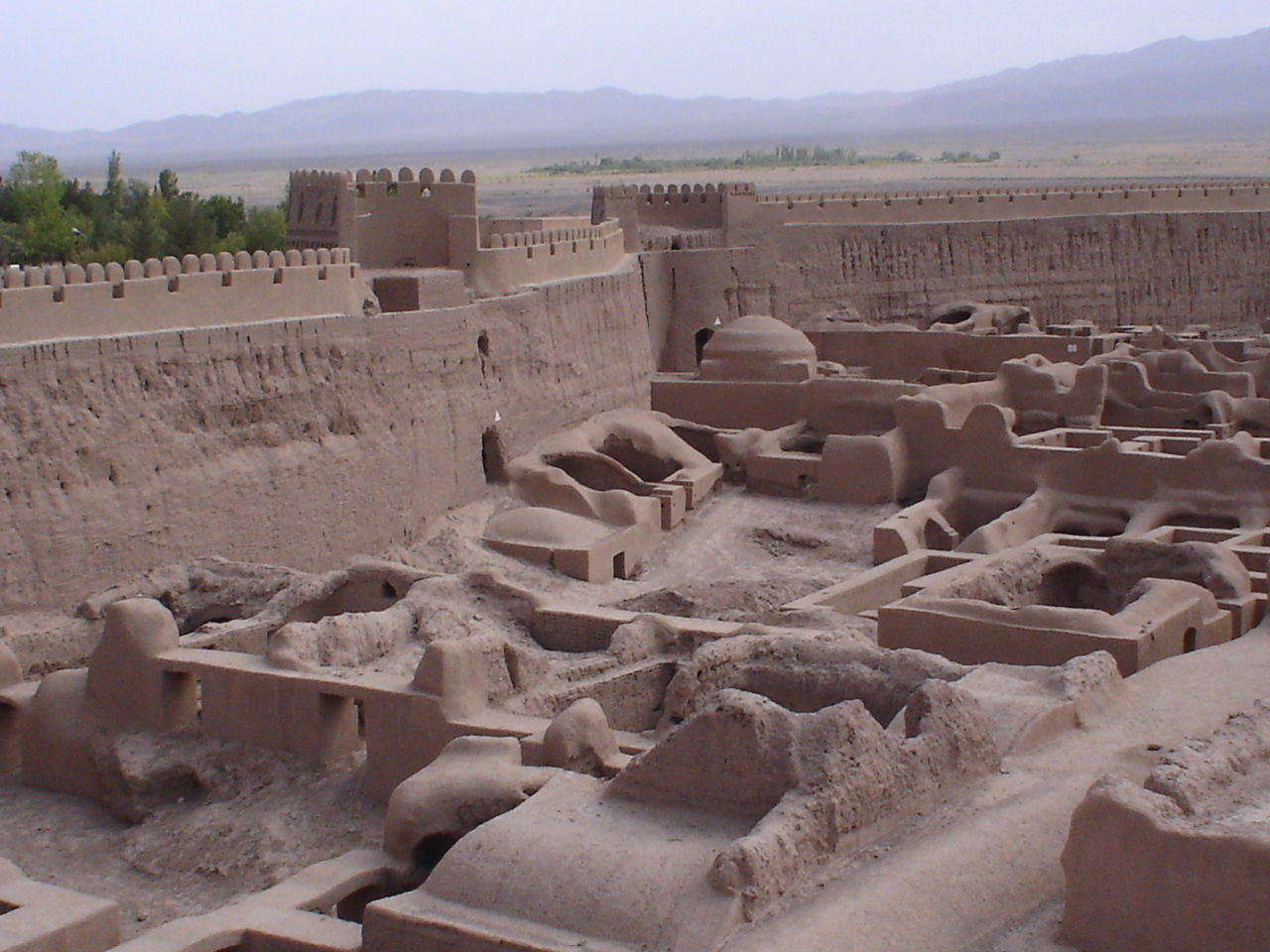 Medieval Rayen Castle (4th-century CE) — in Kerman. Adobe brick fortress castle ruins in Kerman Province, southeastern Iran.